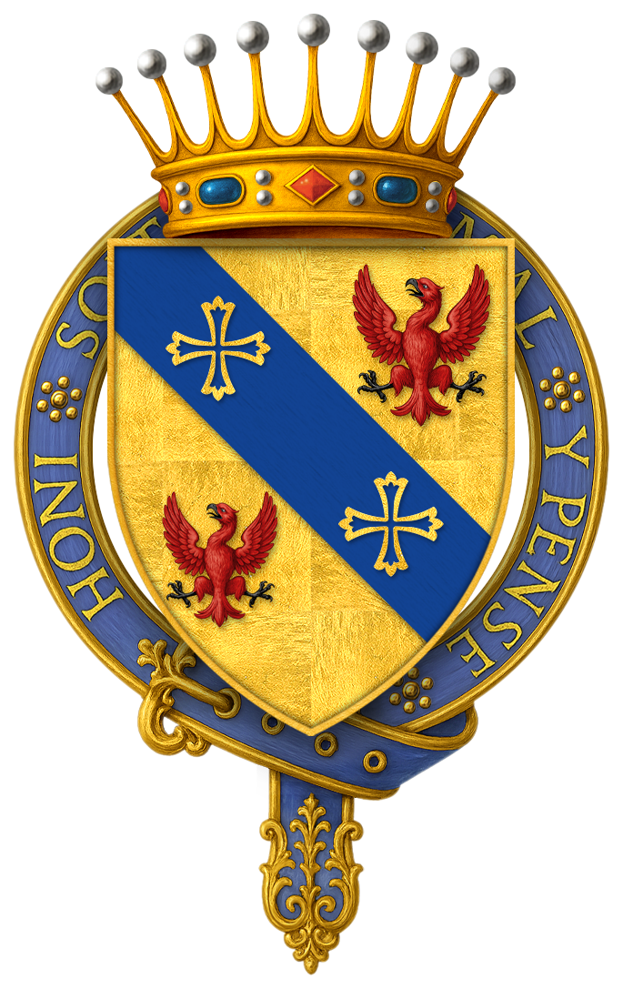 Álvaro Vaz de Almada, 1st Count of Avranches, KG A facsimile of Dom Álvaro Vaz de Almada's coat-of-arms are on display at St. George's chapel (# 162), Windsor Castle.